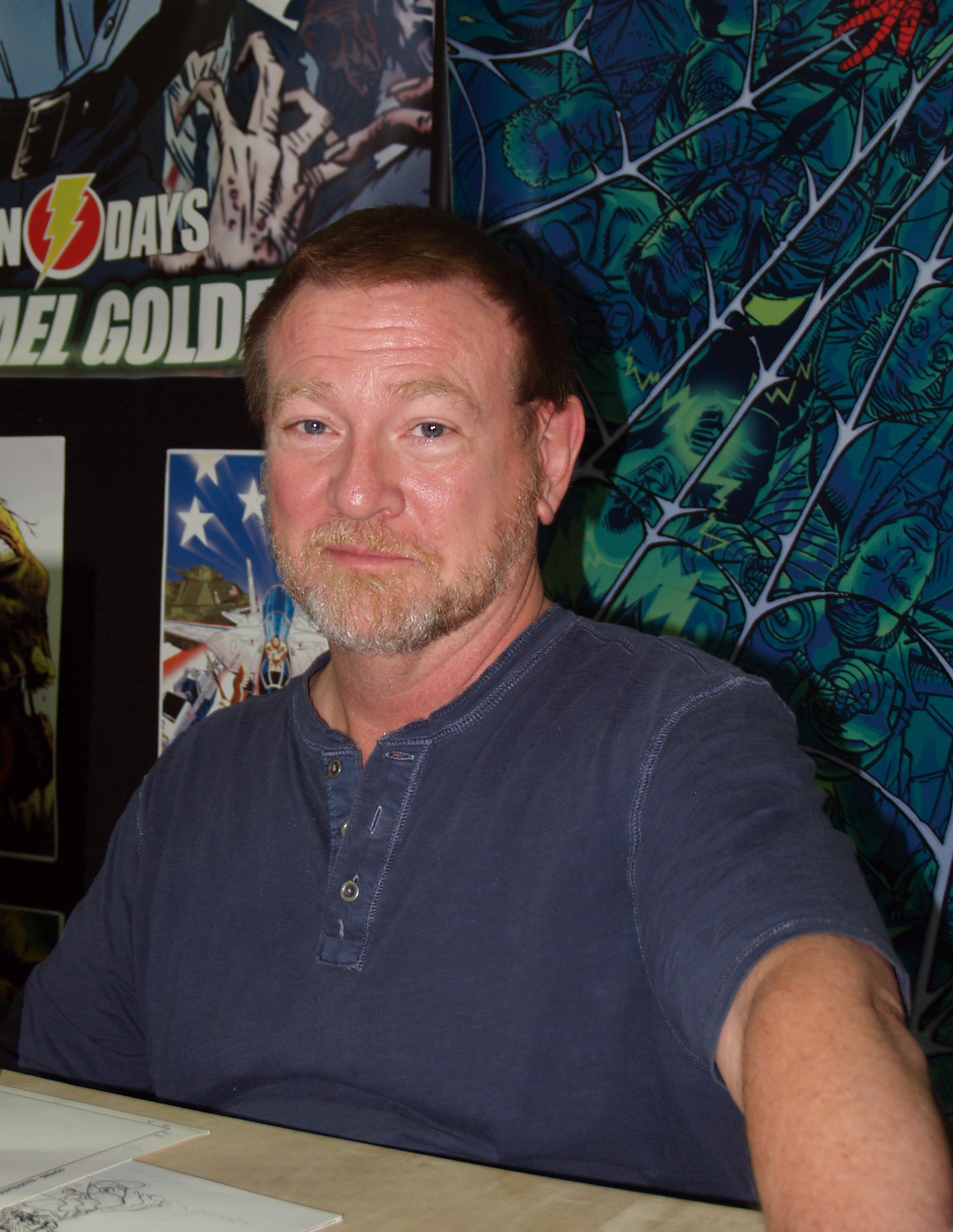 Comics artist Michael Golden on Friday, October 10, 2014 at the Jacob K. Javits Convention Center in Manhattan, Day 2 of the 2014 New York Comic Con. This photo was created by Luigi Novi. It is not in the public domain, and use of this file outside of the licensing terms is a copyright violation.